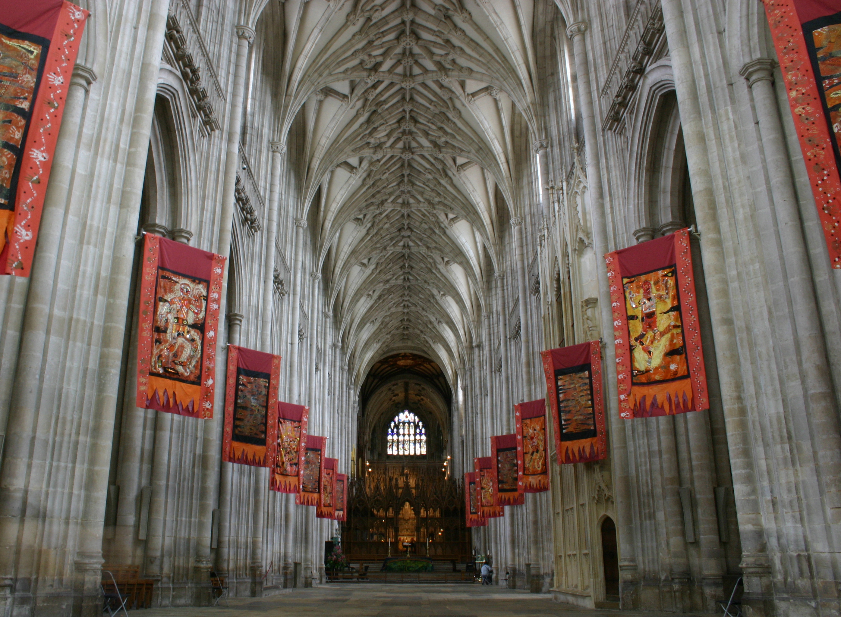 Winchester Cathedral (england) lined by flags made by local school children (aged approximately 12 years old)